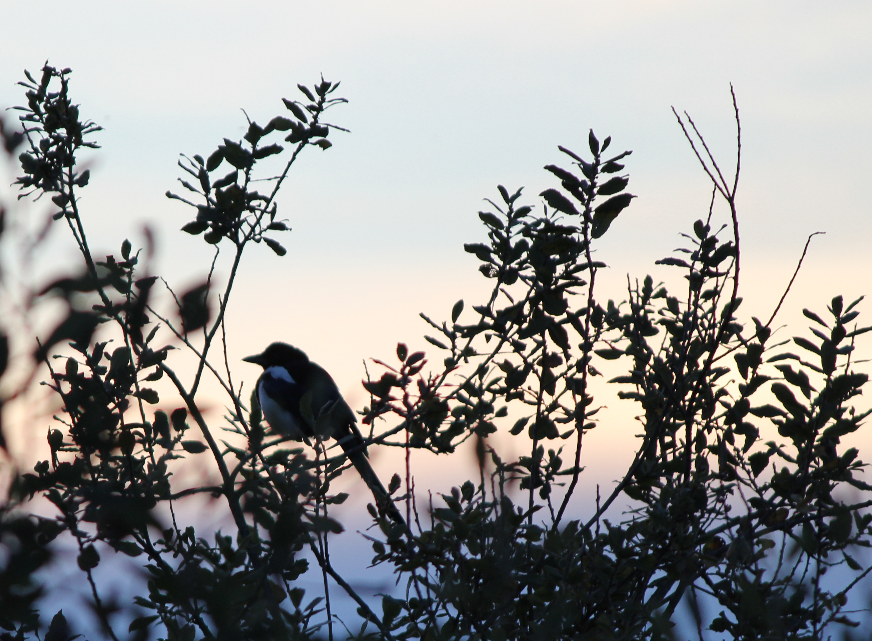 Pica pica on Salix sp. Lake Brunnsjön, Hedemora, Sweden.